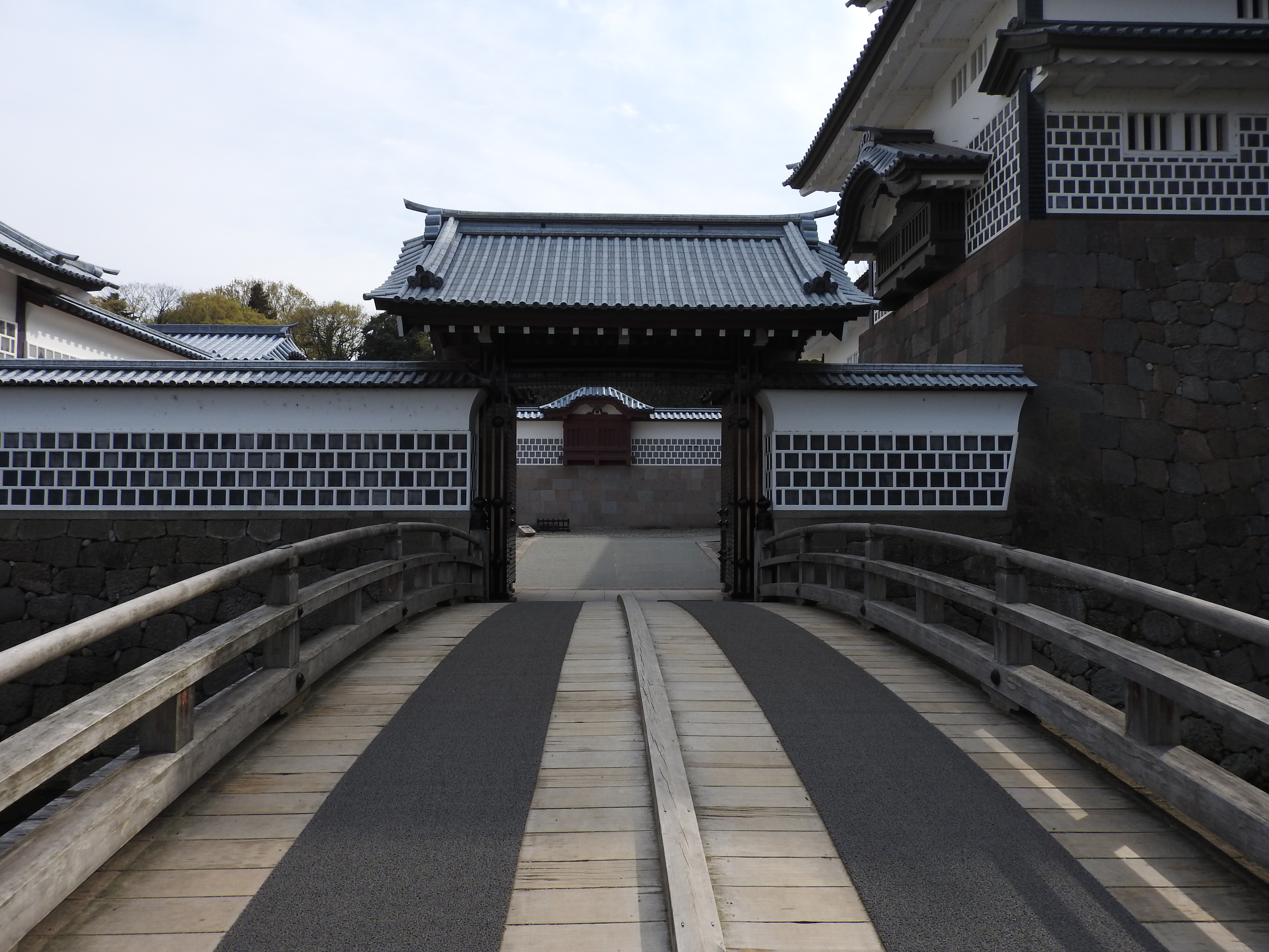 Kanazawa Castle